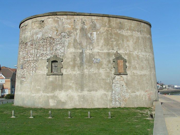 A Martello tower at Clacton-on-sea, Essex. Photo by User:sannse